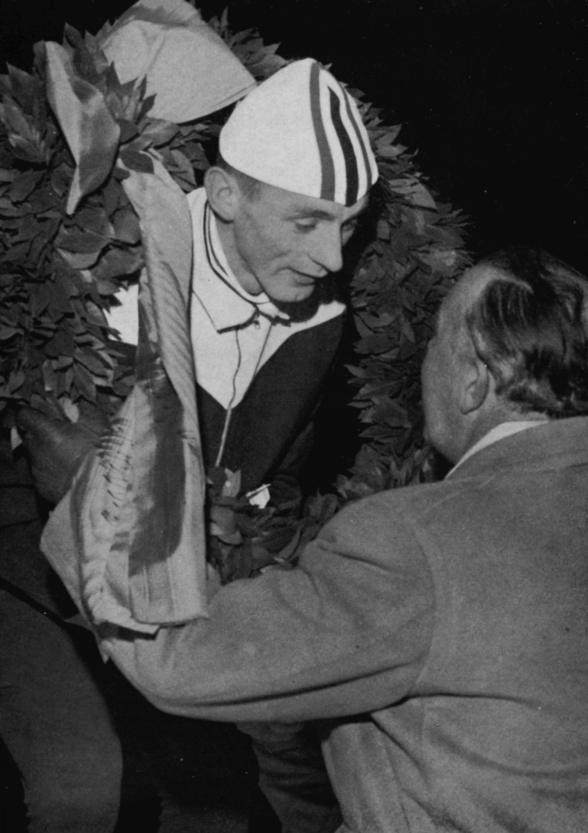 The Norwegian speed skater Nils Aaness receives the laurel wreath from Swedens Prince Bertil after winning the European Championship in speed skating at Ullevi Gothenburg the 3rd of February 1963.